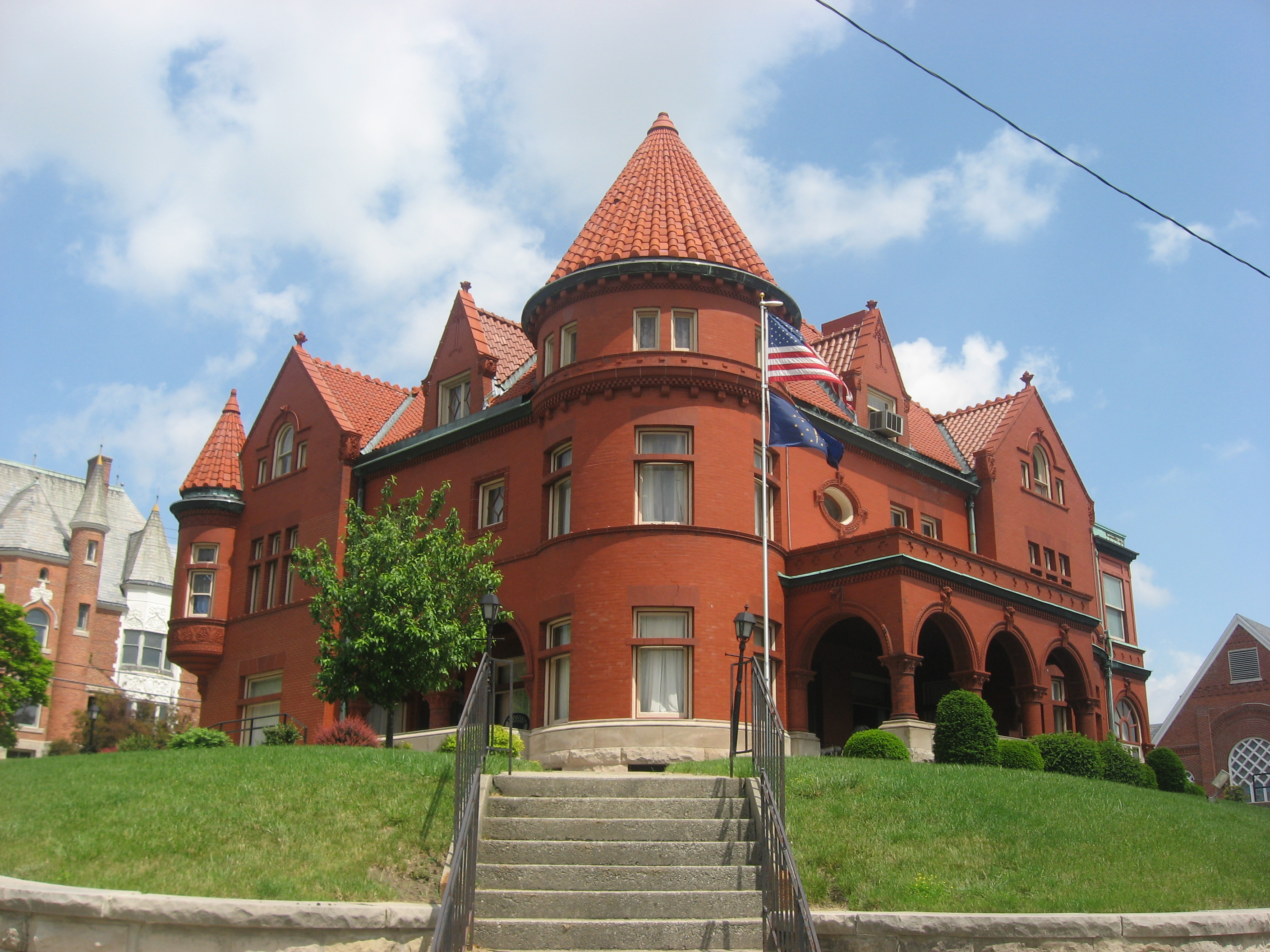 Front and southern side of the Taylor-Zent House, located at 715 N. Jefferson Street (U.S. Route 224 in Huntington, Indiana, United States. Built in 1896 and since converted into the McElhaney-Hart Funeral Home, it is listed on the National Register of Historic Places, and it is part of a Register-listed historic district, the North Jefferson Street Historic District.